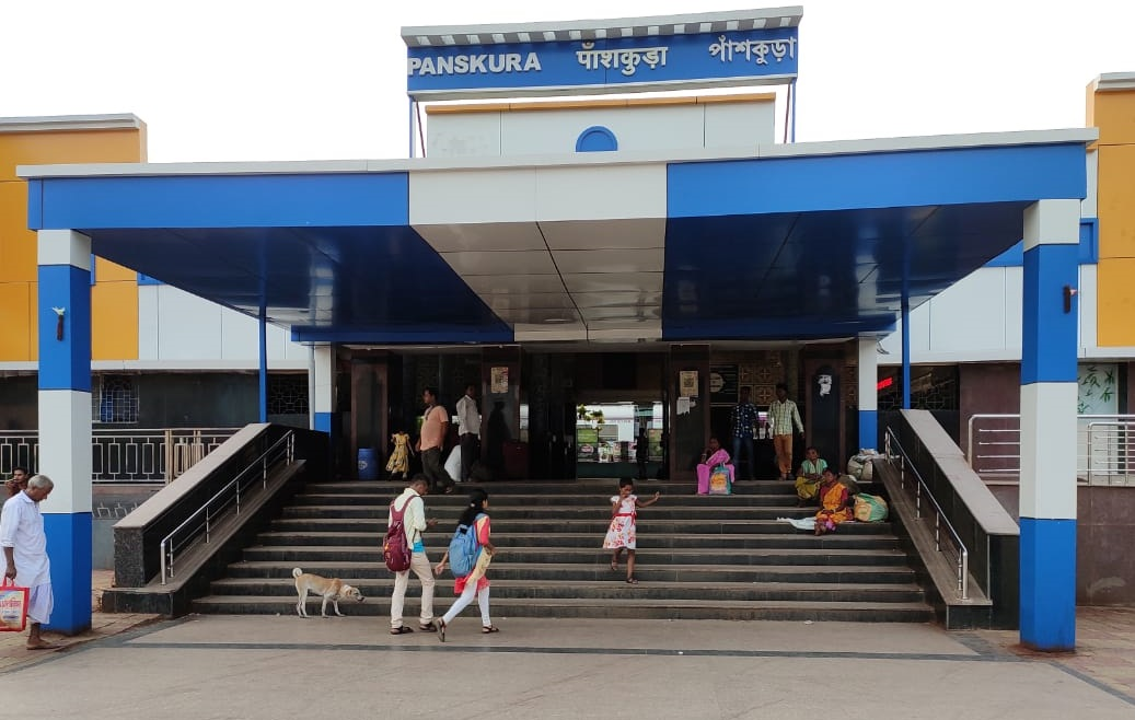 Station Image